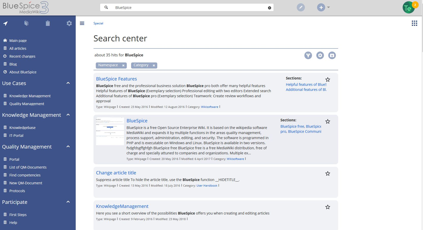 The search engine in BlueSpice 3 (Elasticsearch)